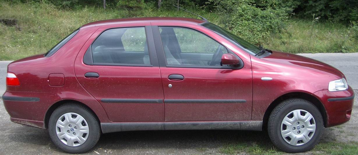 Fiat Albea Star. Photograph taken by Alexandru Rap, July 2005.